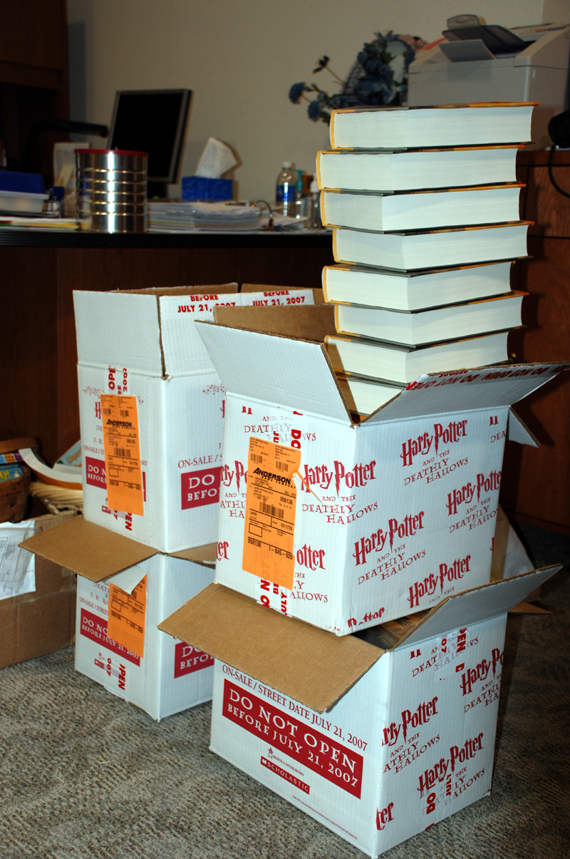 Cases of the seventh Harry Potter book wait to be sold at the Harry Potter release event, held by the Sheppard Air Force Base library.